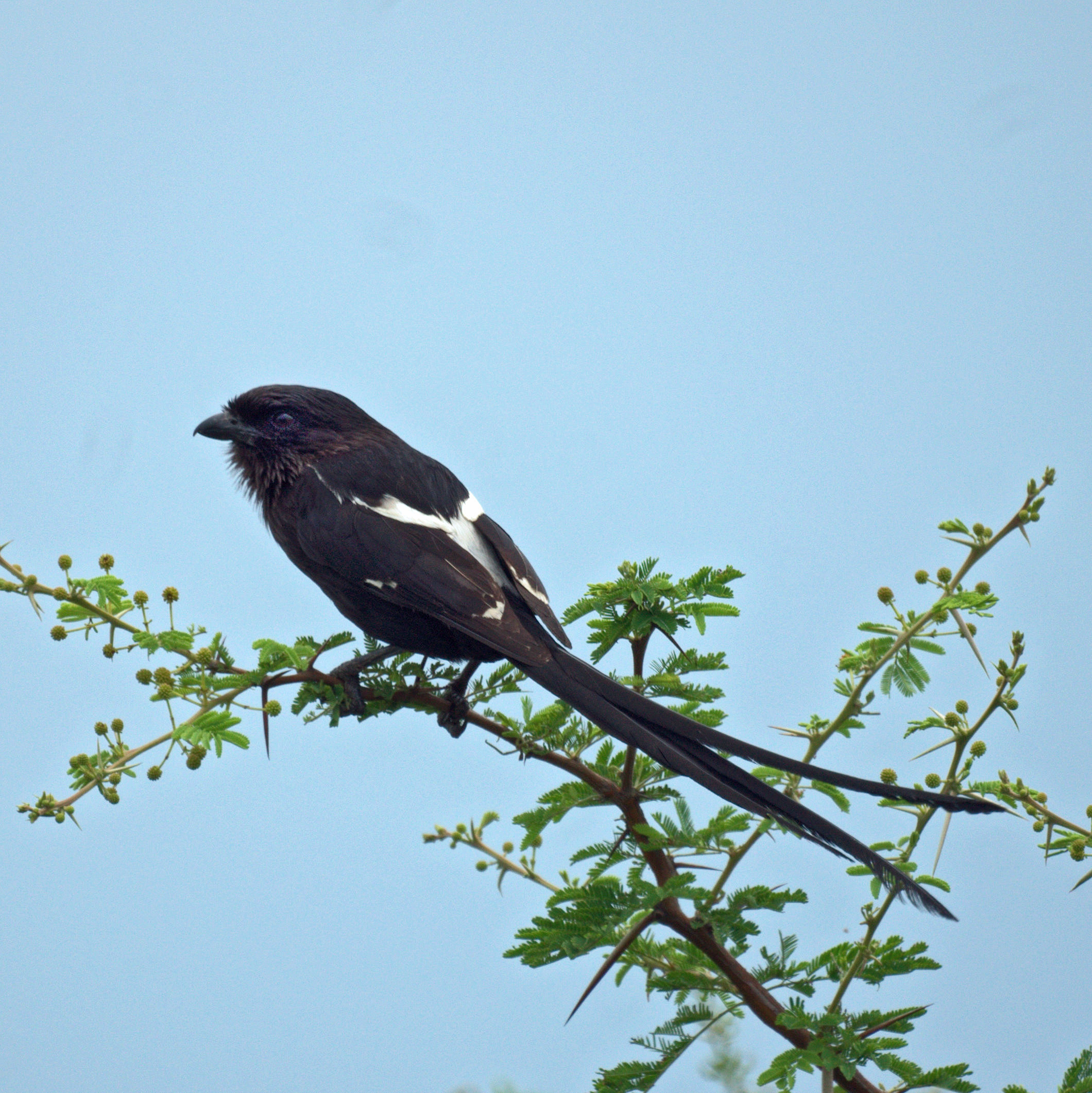 Magpie Shrike (Urolestes melanoleucus) in Limpopo Rural, South Africa.